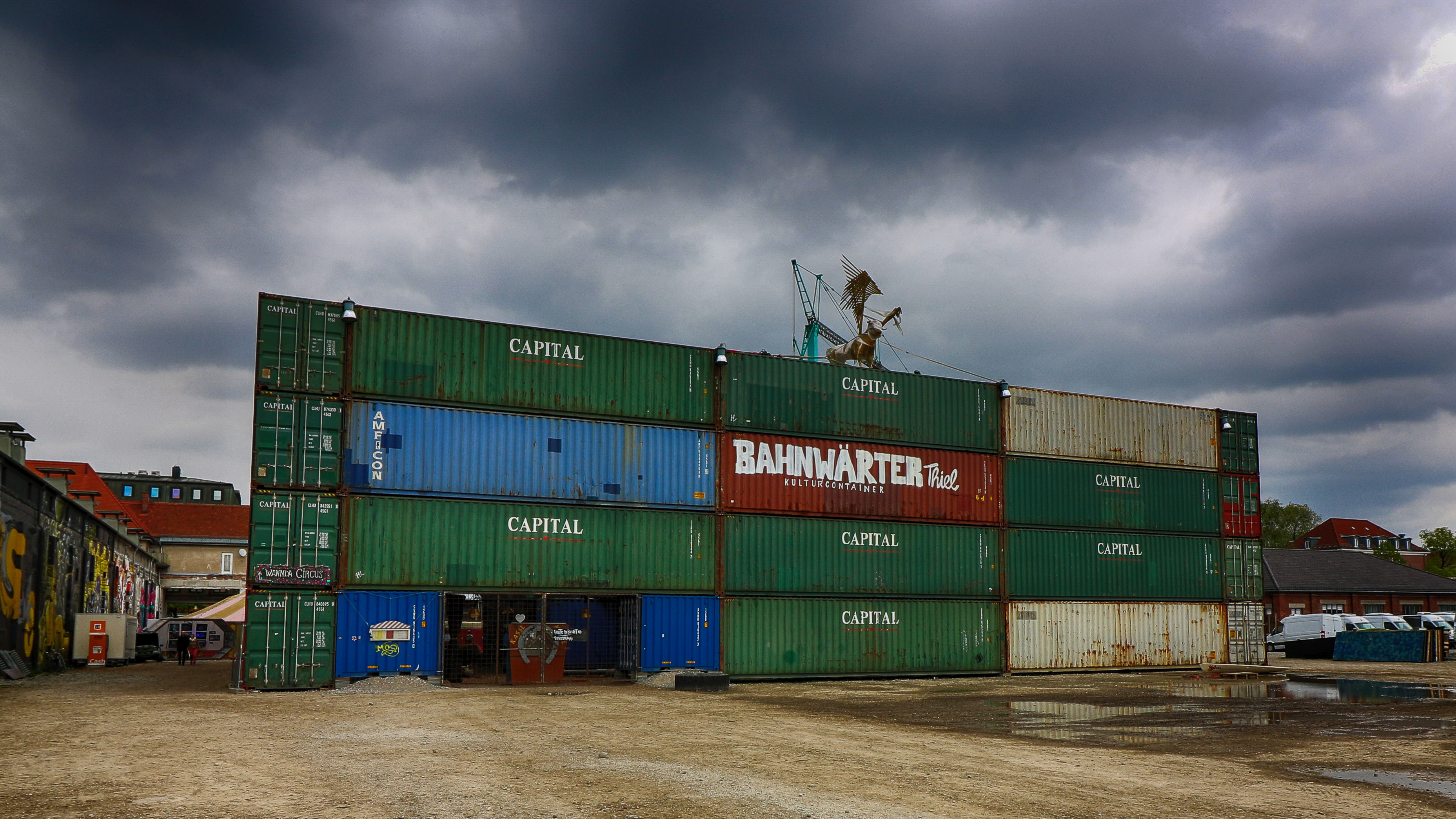 The nightclub Bahnwärter Thiel in Munich in April 2017.